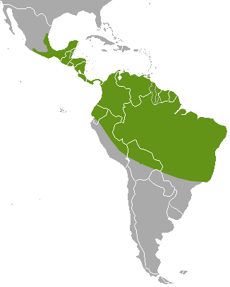 Kinkajou (Potos flavus) range